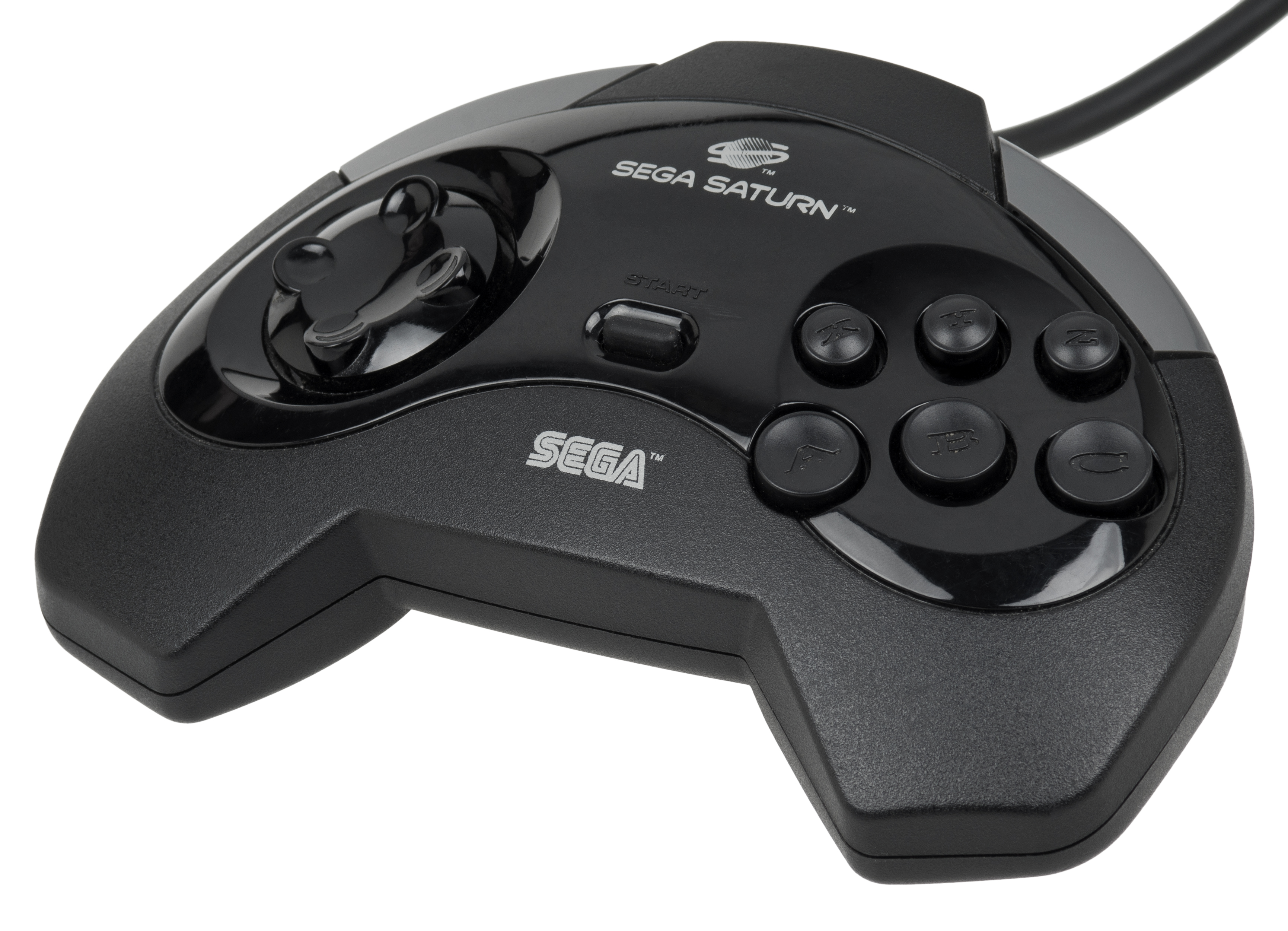 An original model 1 controller for the North American Sega Saturn console. Later replaced by the model 2 controller that matched the shape of the Japanese Sega Saturn controller.